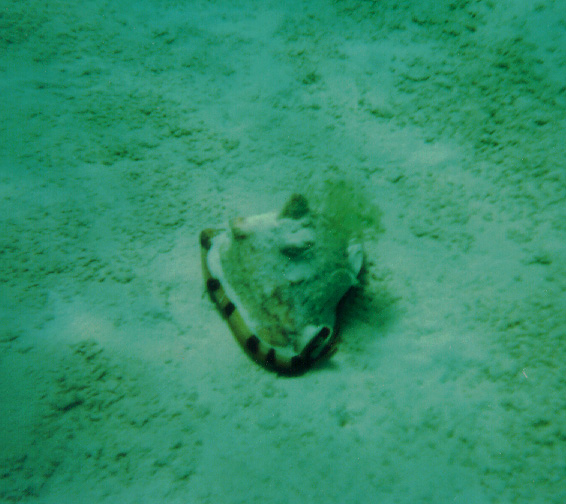 Helmet Conch (Cassis tuberosa) on algal mat in sand, Bamboo Point, San Salvador Island, Bahamas. June 26, 1999.